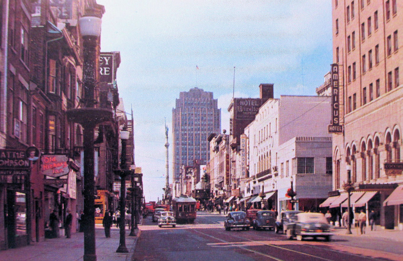 1950 Hamilton Street looking west from the 500 block, about 1950. Note the trolley, which ended service in 1953. Also note the 2 story building at the corner of 6th and Hamilton next to Zollingers. That building was erected in 1947.